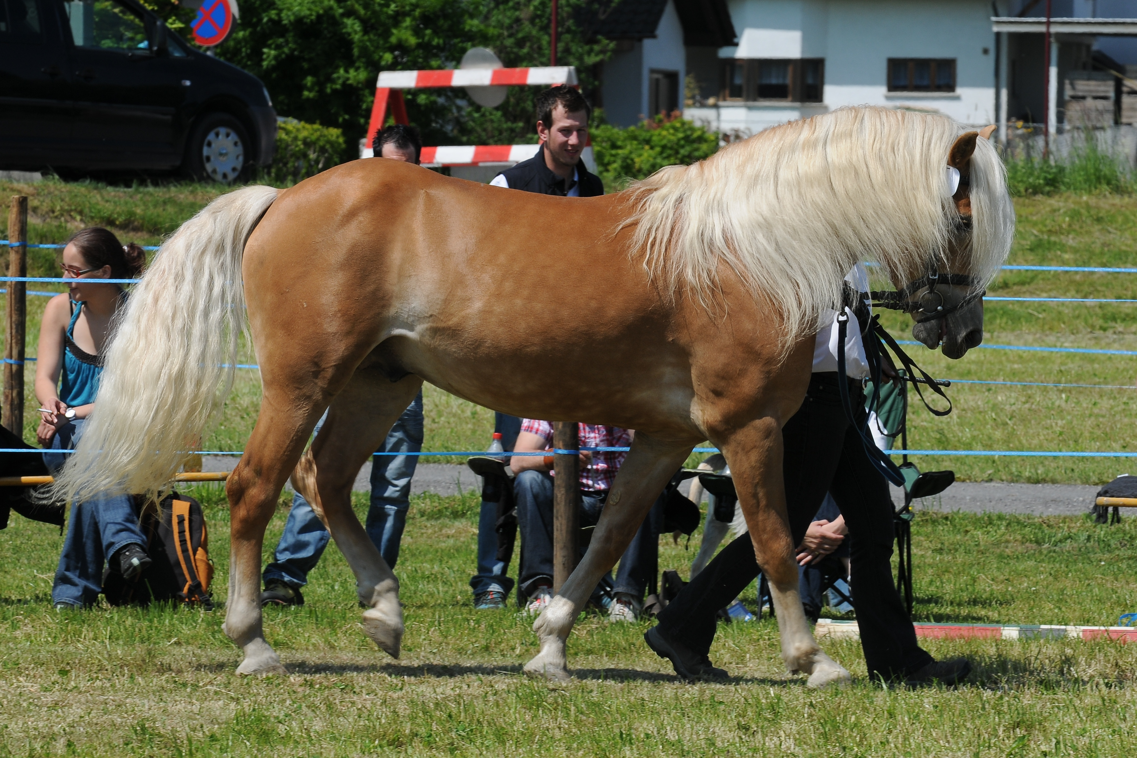 The Haflinger is a breed of horse developed in Austria and northern Italy during the 1874. Breeding stallion of Fohlenhof Ebbs in Tirol at a exibition in Höchst, Austria